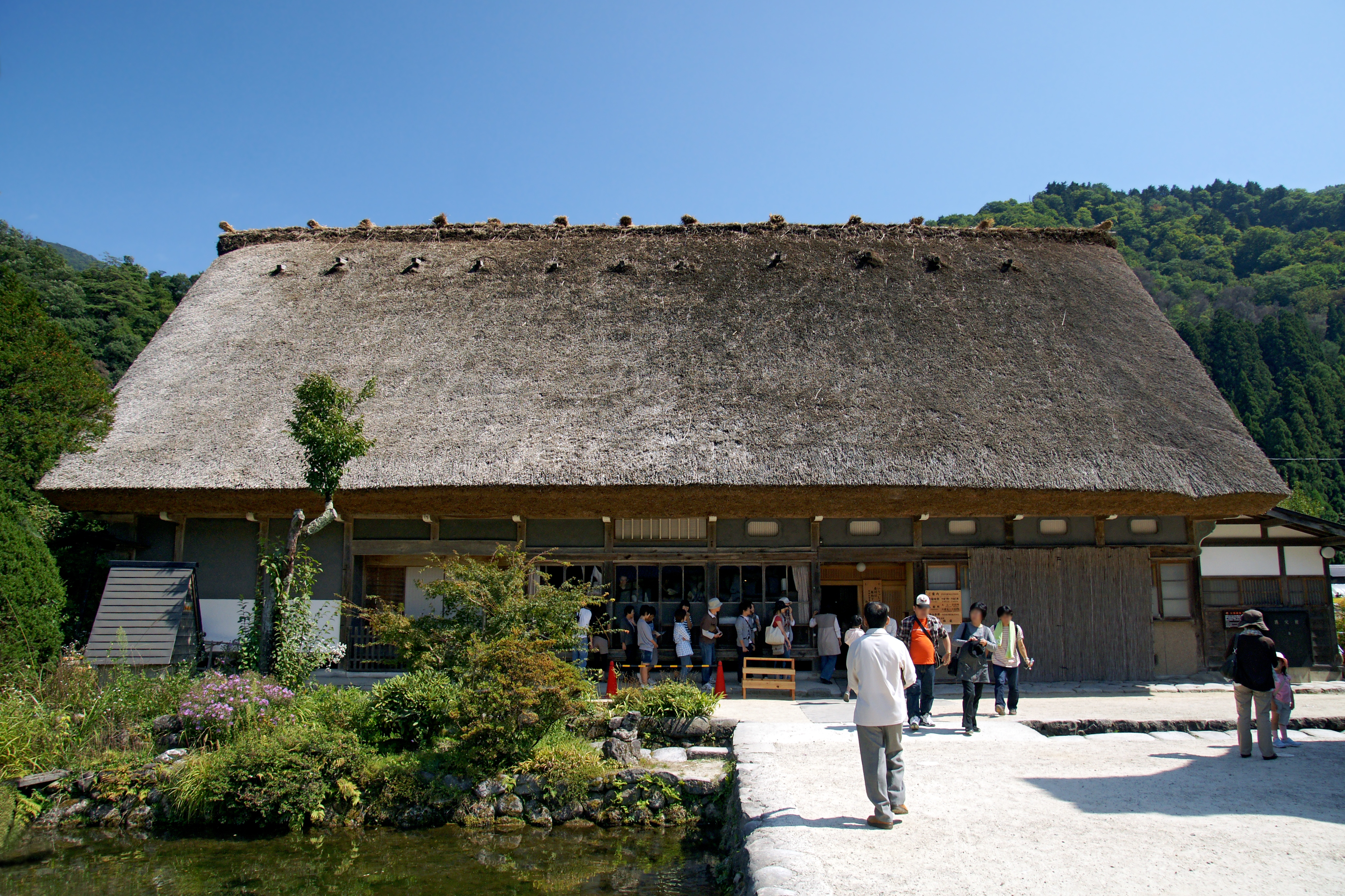 Wada-ke house in Shirakawa-go (Ogi), Shirakawa, Gifu prefecture, Japan